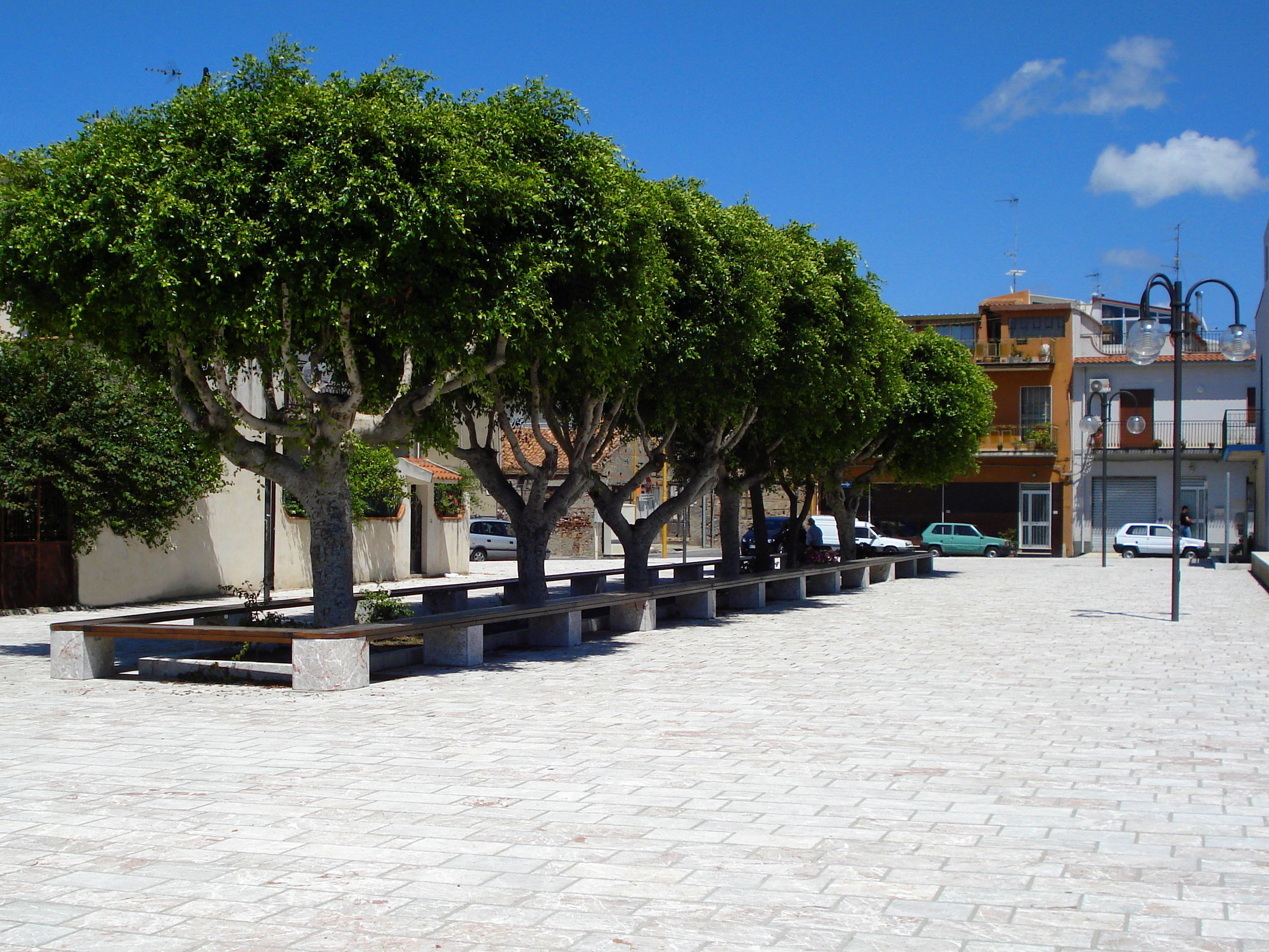 Torregrotta: Giovanni Tripoli Square.